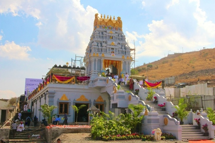 Venkateshwara Temple in Iskcon Pune